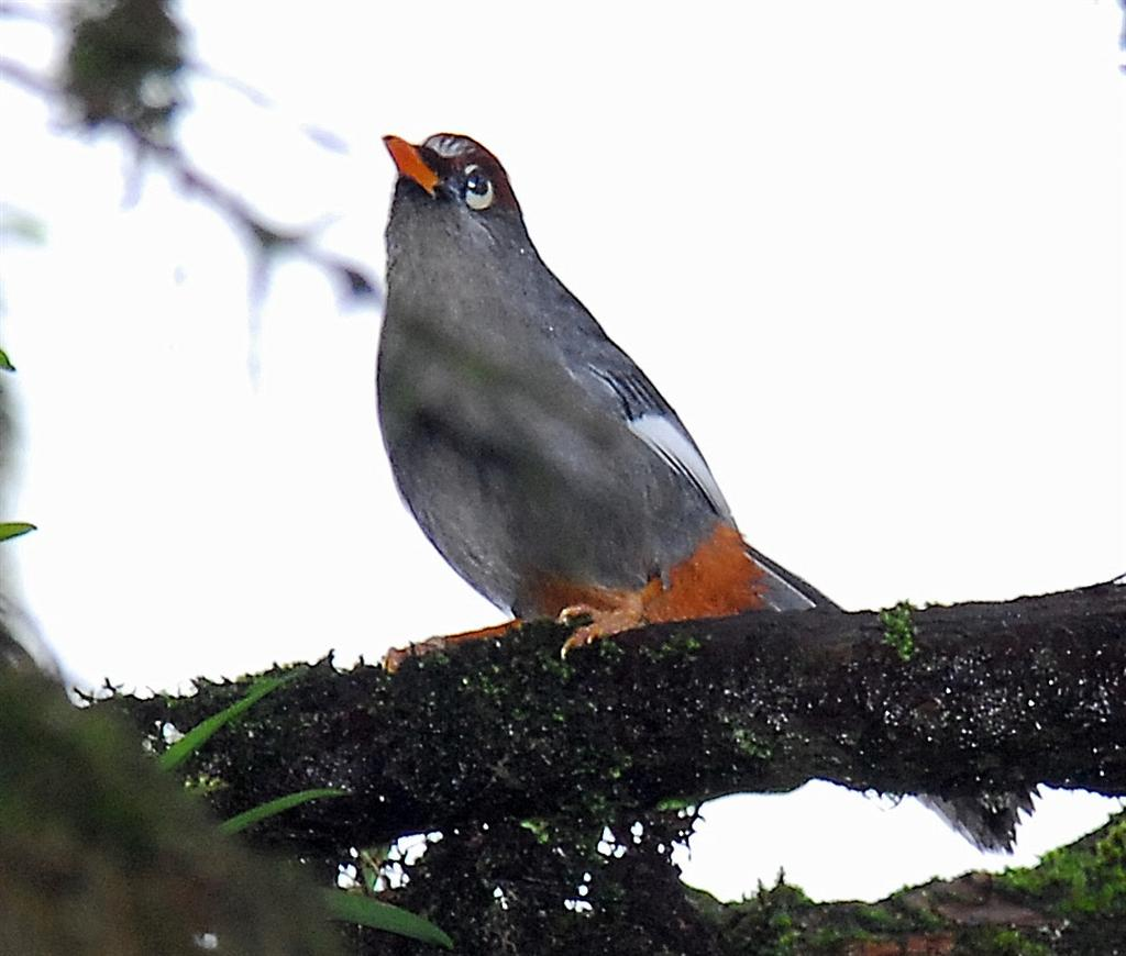 Chestnut-capped Laughing Thrush (Garrulax mitratus), Fraser's Hill, Peninsular Malaysia Now called Spectacled Laughingthrush after taxonomic split. Sometimes placed in genus Rhinocichla, as R. mitrata. Dysmorodrepanis 01:22, 28 May 2008 (UTC)